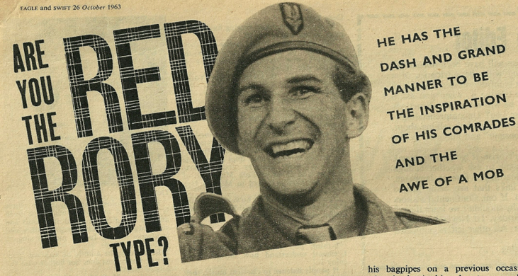 Newspaper clipping relating to Red Rory Walker